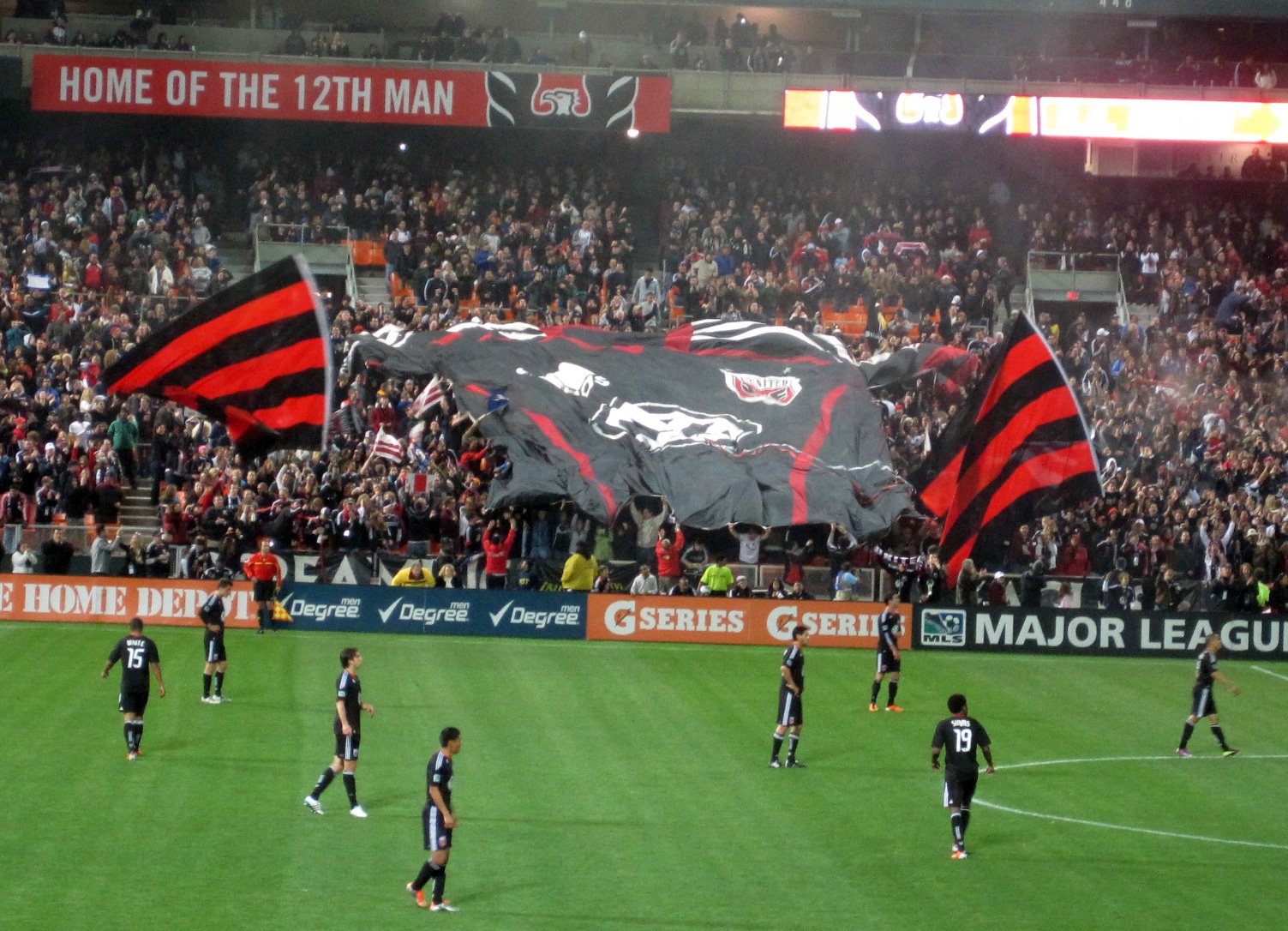 Screaming Eagles celebrate a goal with a D.C. United Jersey TIFO